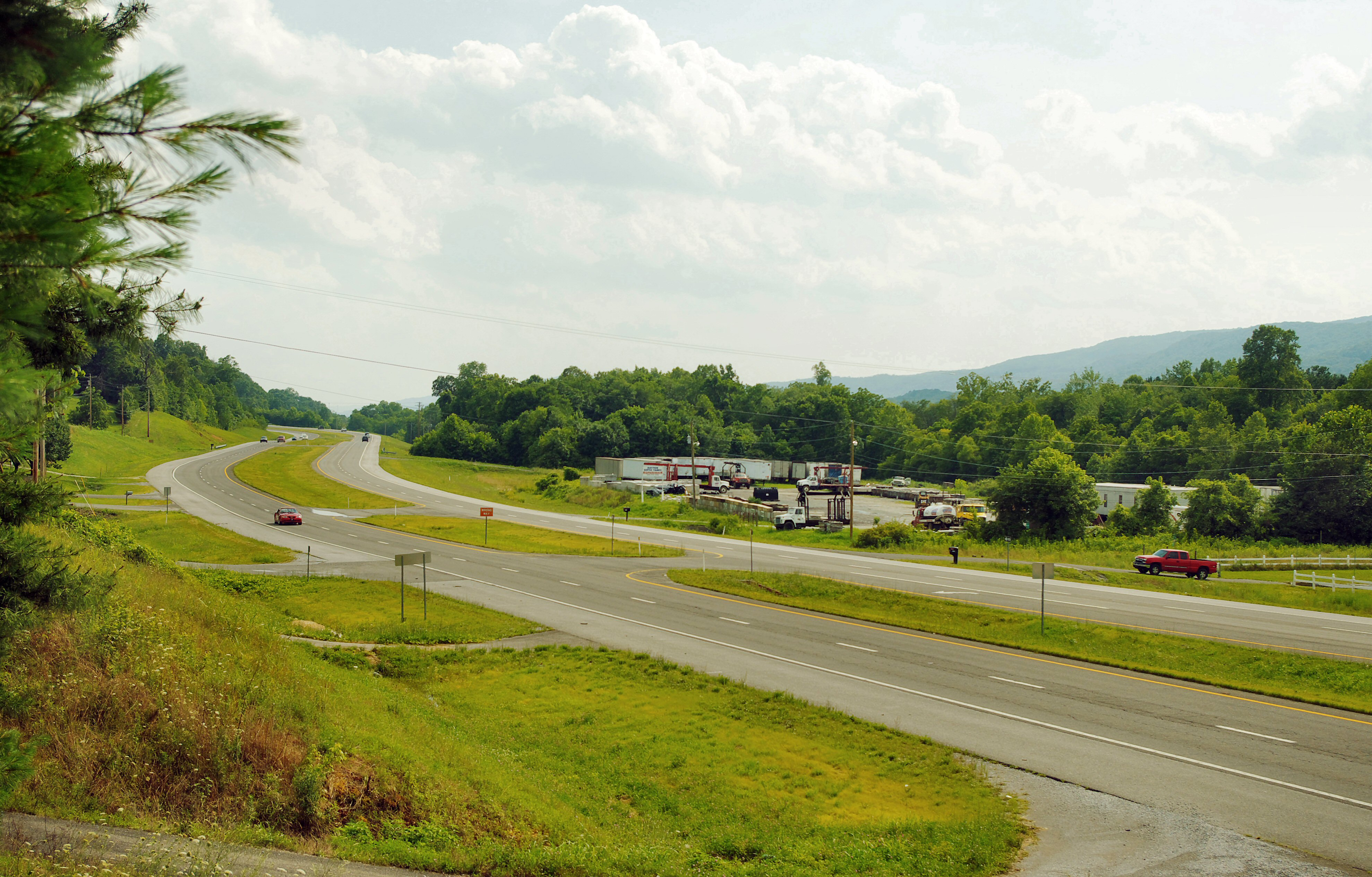 U.S. Route 27 in the Evensville community of Rhea County, Tennessee, United States. The Cumberland Plateau is on the right.